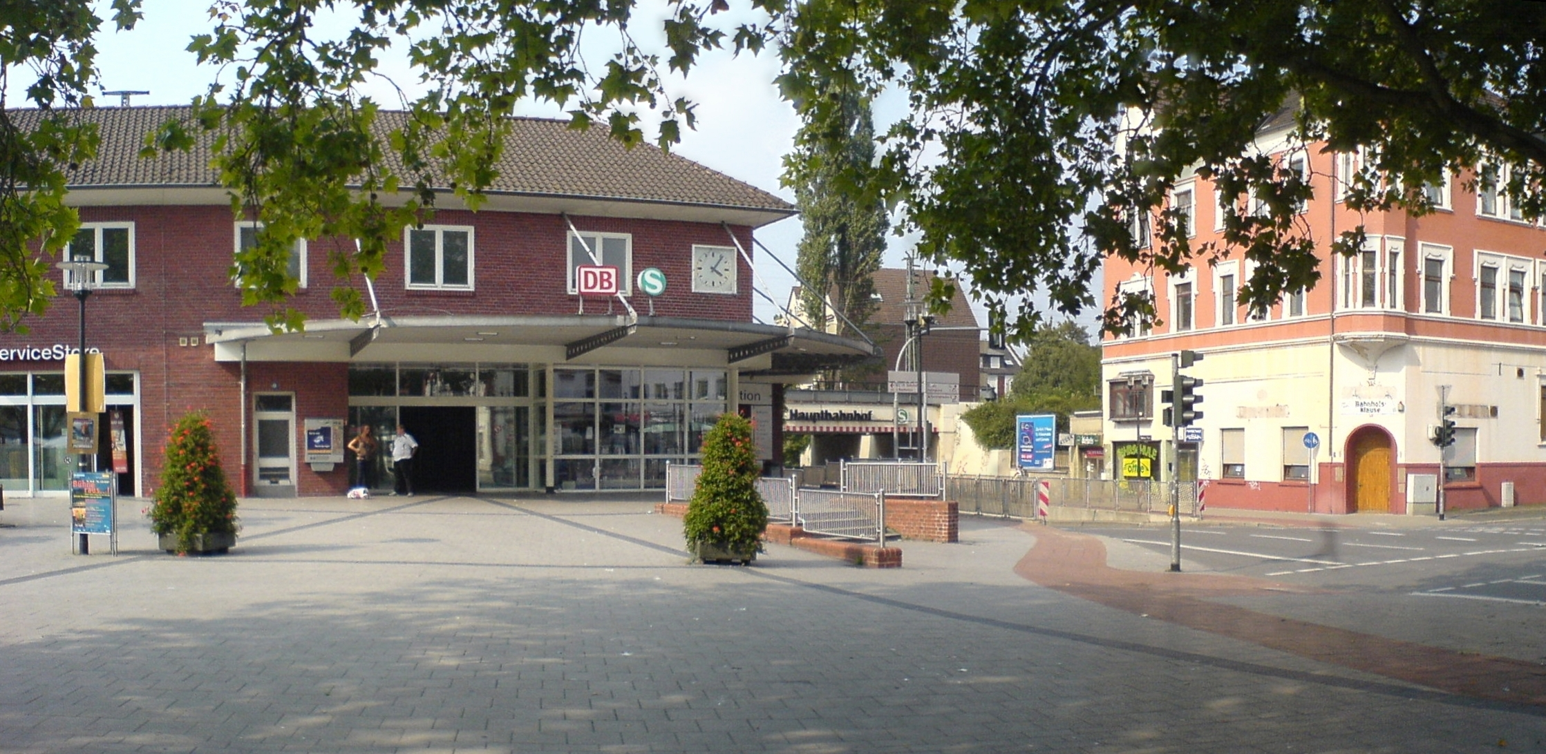 Castrop-Rauxel HBF This panoramic image was created with Autostitch. Stitched images may differ from reality.